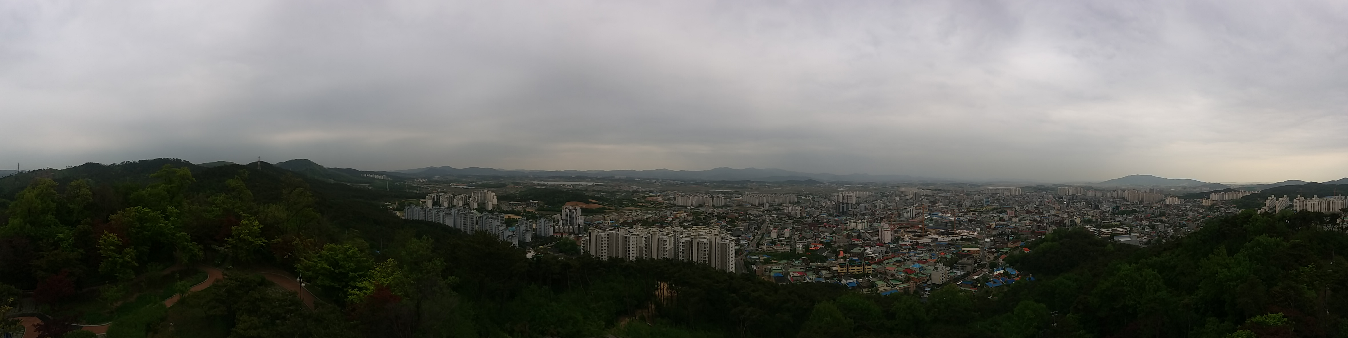 Panorama